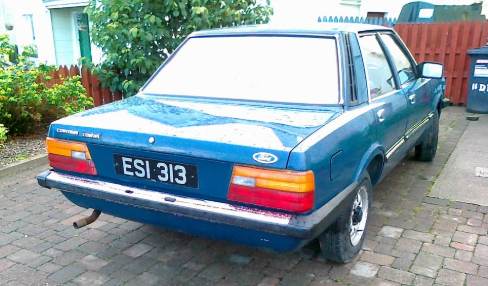 a Cortina Cashel